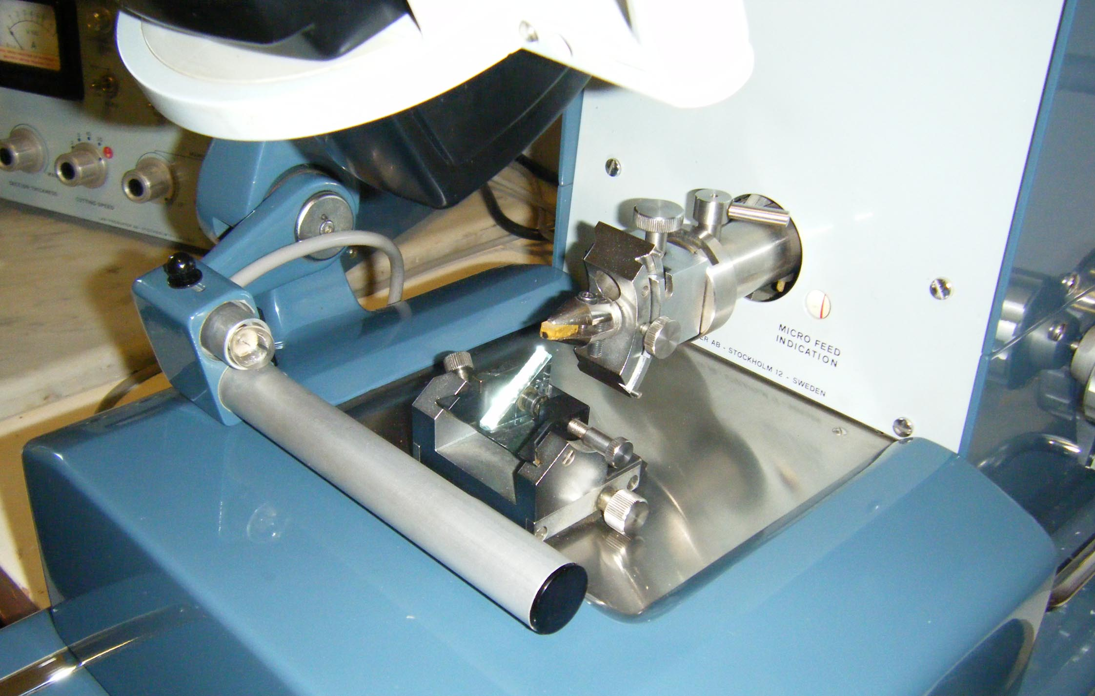 specimen mounted on ultramicrotome